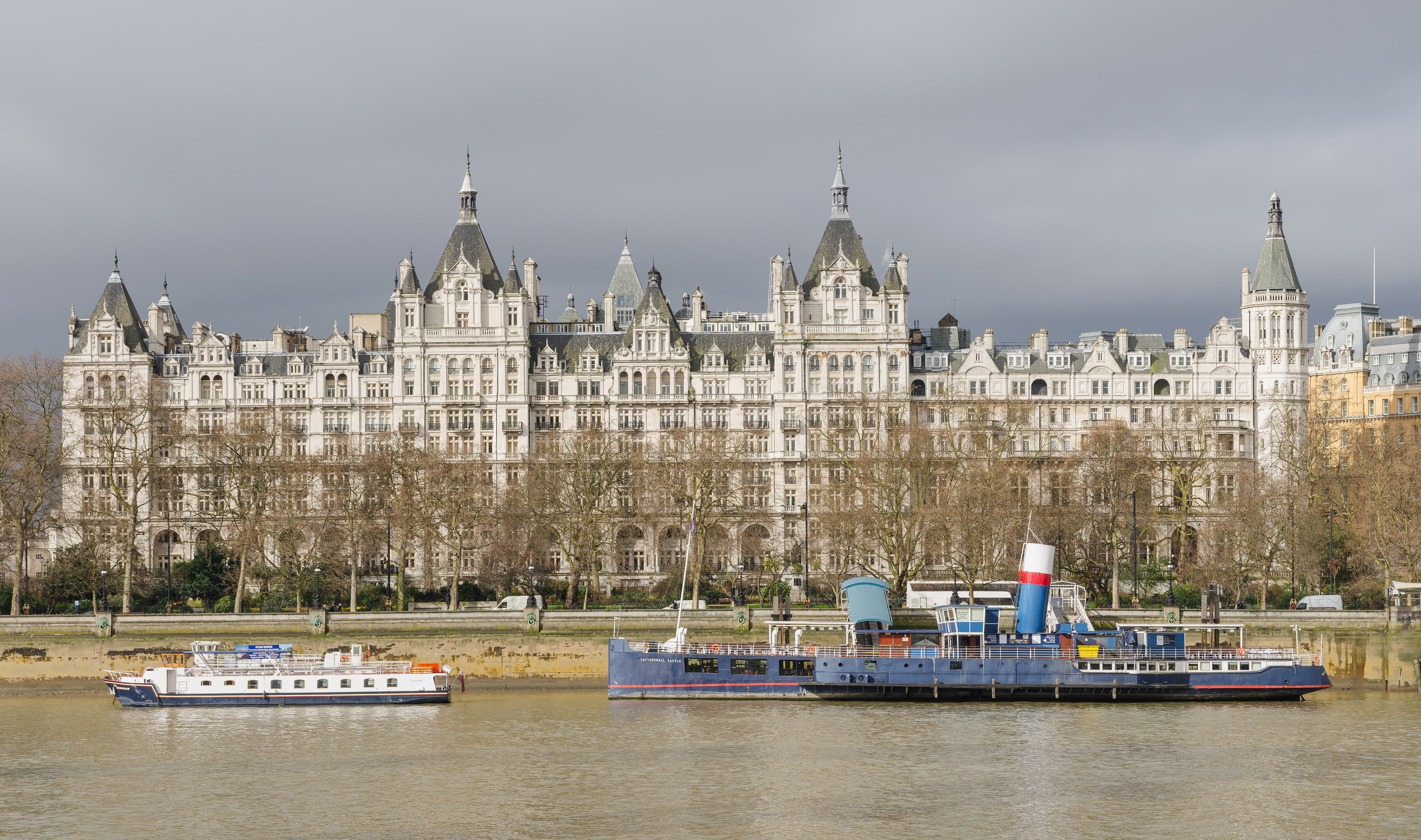 Whitehall Court, London. This image was created with Hugin.